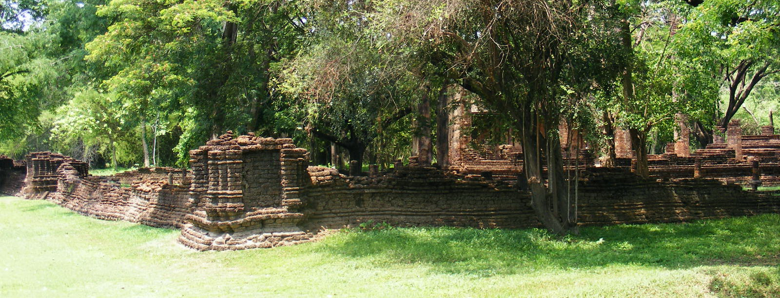 Si Satchanalai historical parkLocation: Si Satchanalai, Sukothai Province, Thailand.